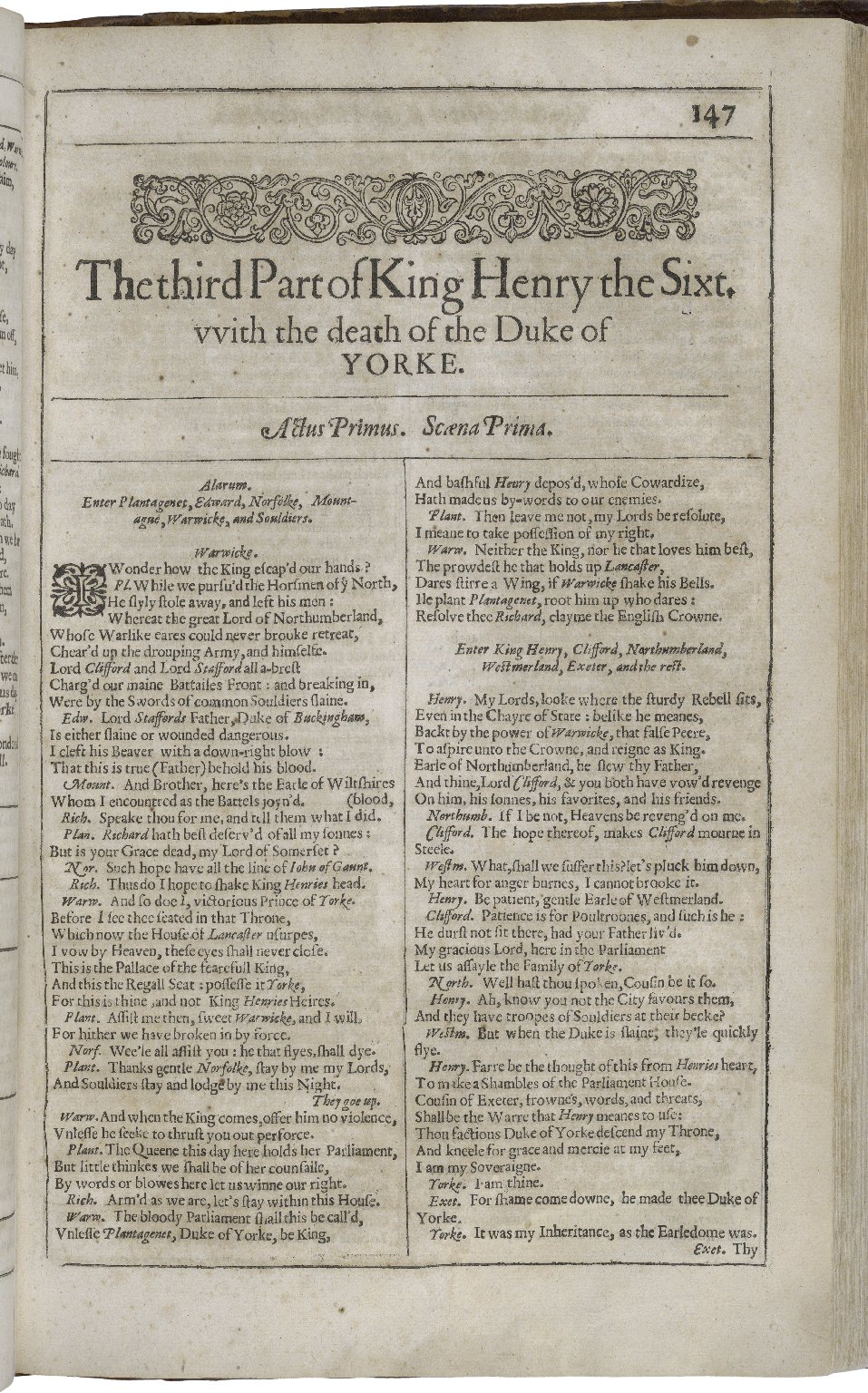 The first page of Henry VI, Part III printed in the Second Folio edition of 1632.